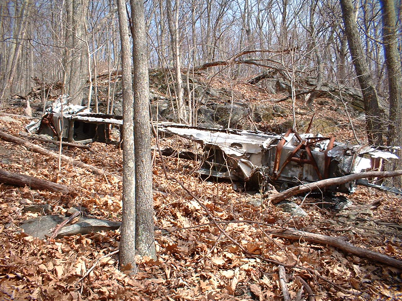 The wreckage of Piedmont Airlines Flight 349, as seen in February 2002.